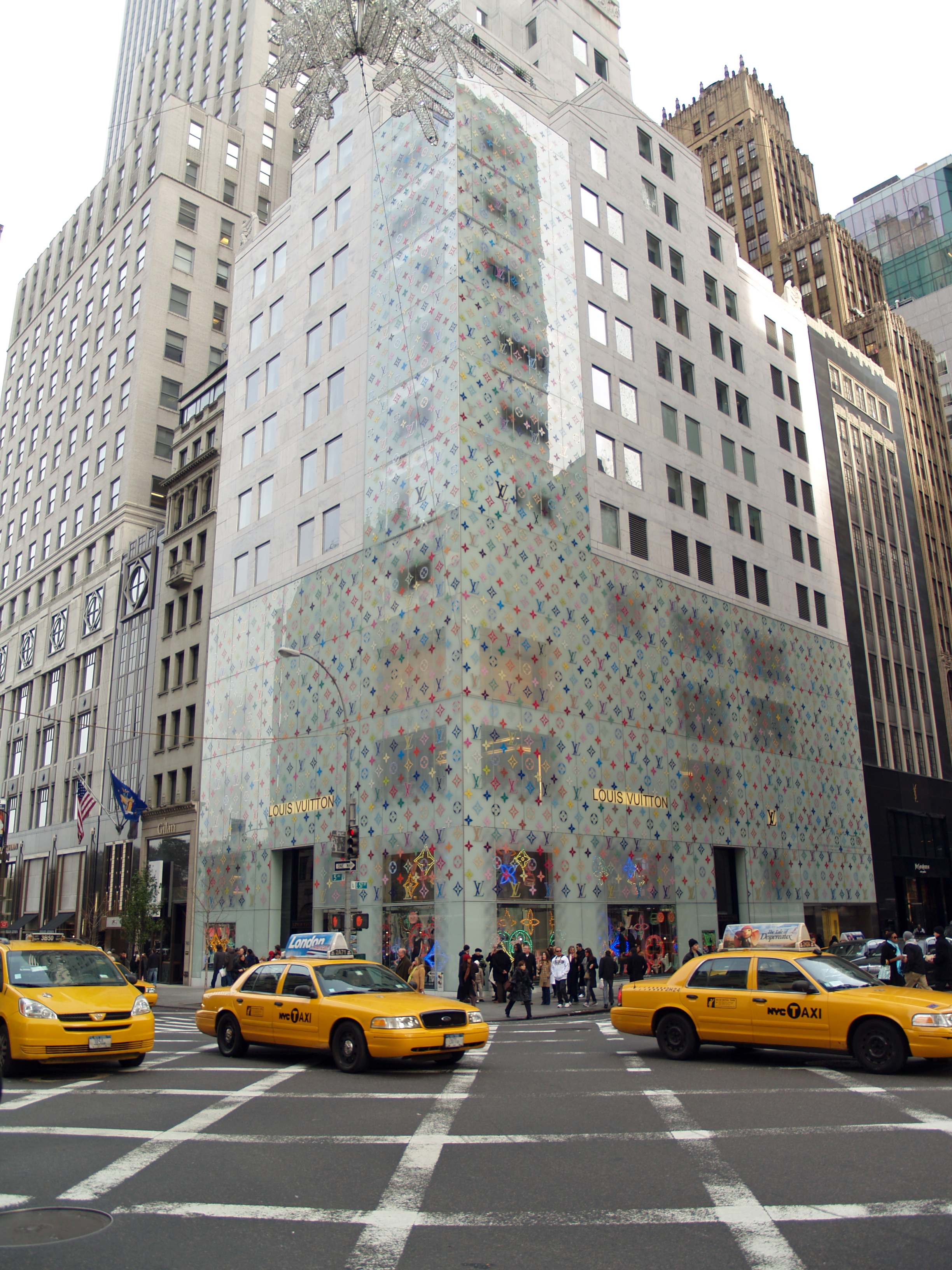 Louis Vuitton's Fifth Avenue, New York City store.